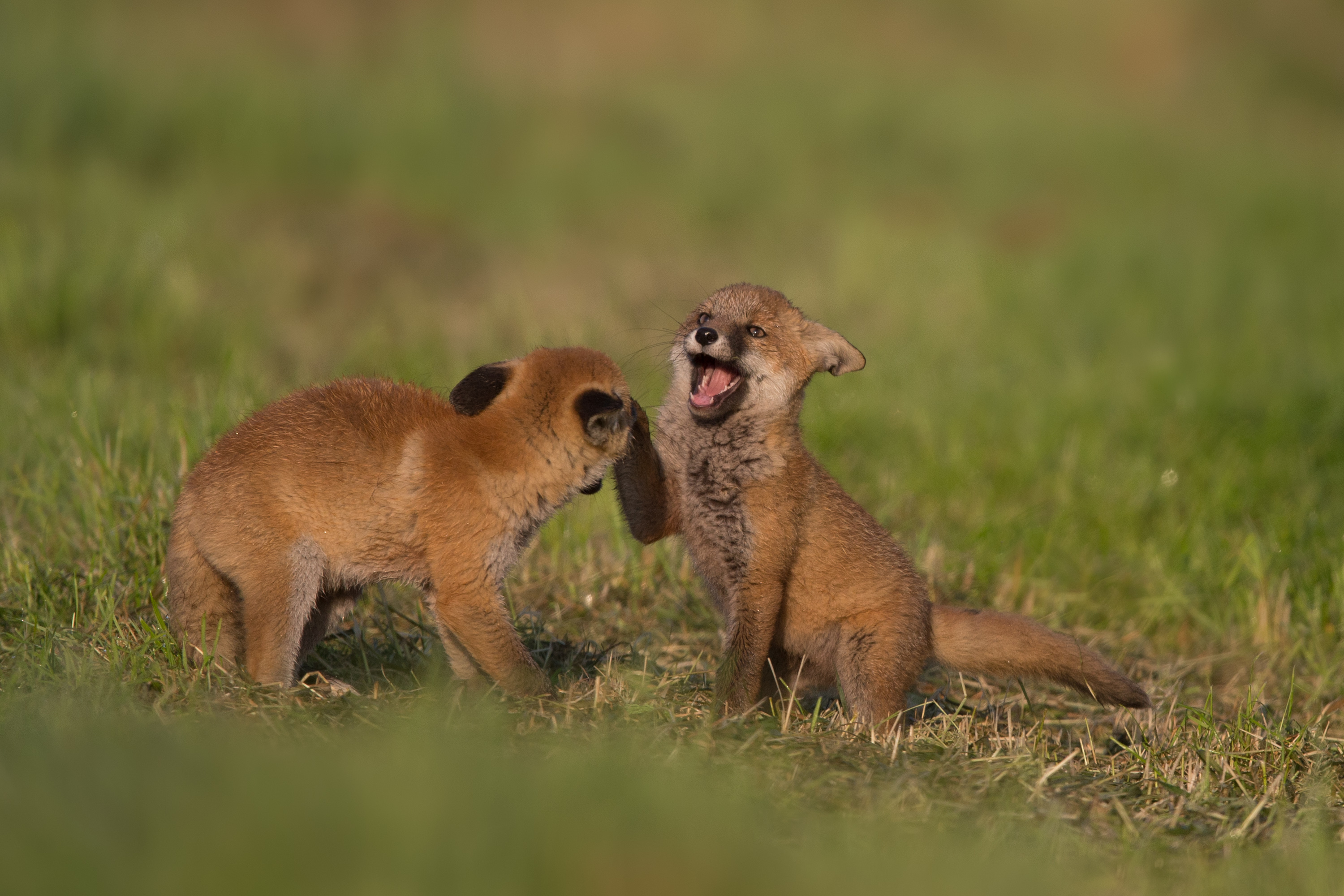 Red fox